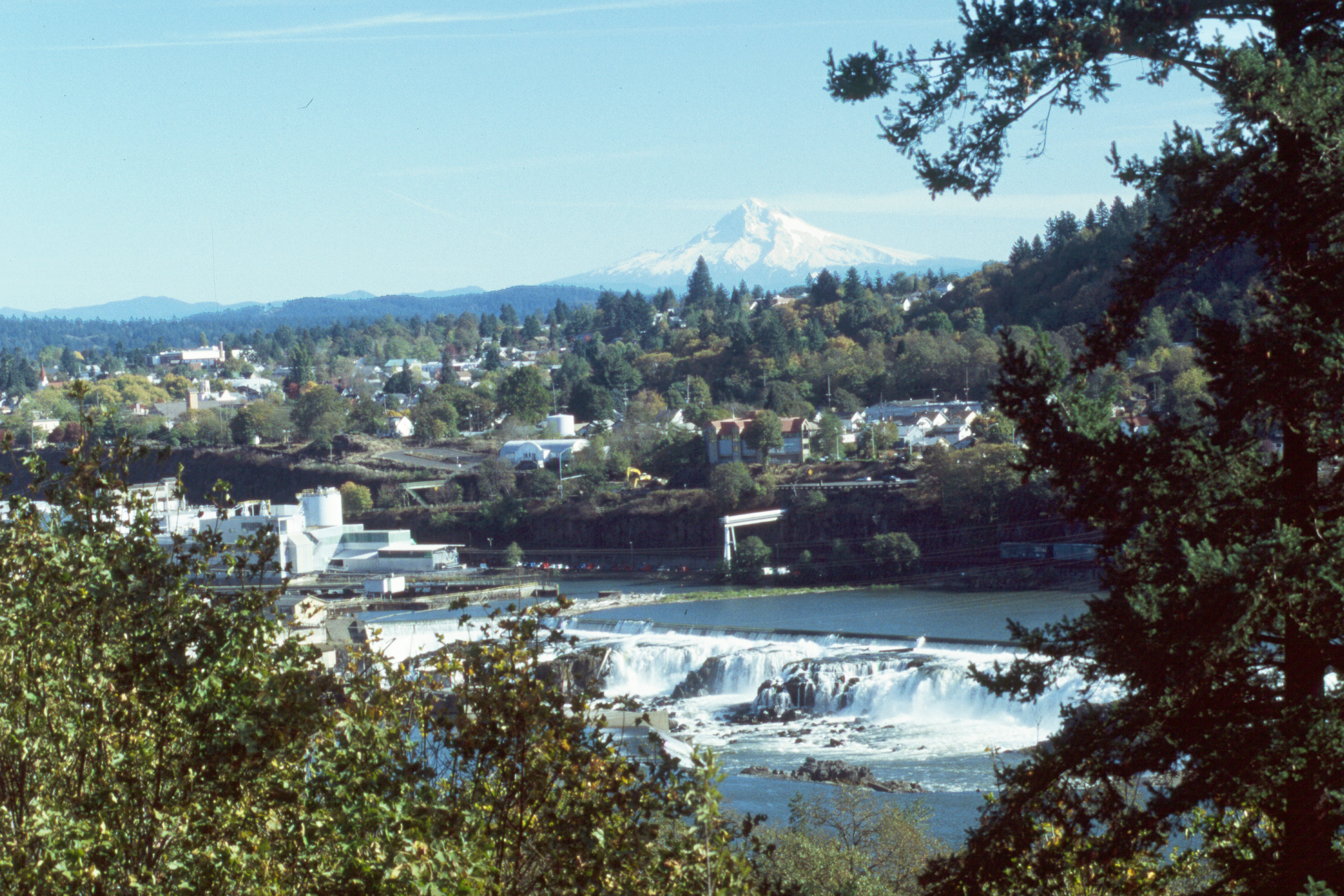 With Willamette Falls